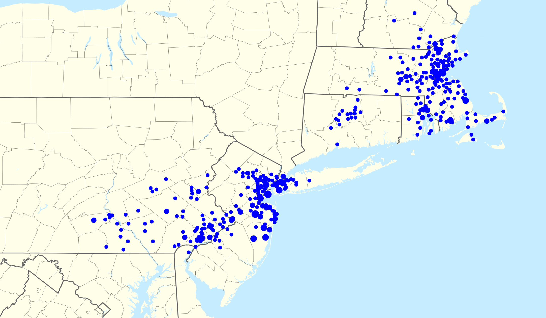 Footprint of Sovereign Bank branches within the eastern seaboard of the United States. Zip codes with more than one branch have progressively larger points.